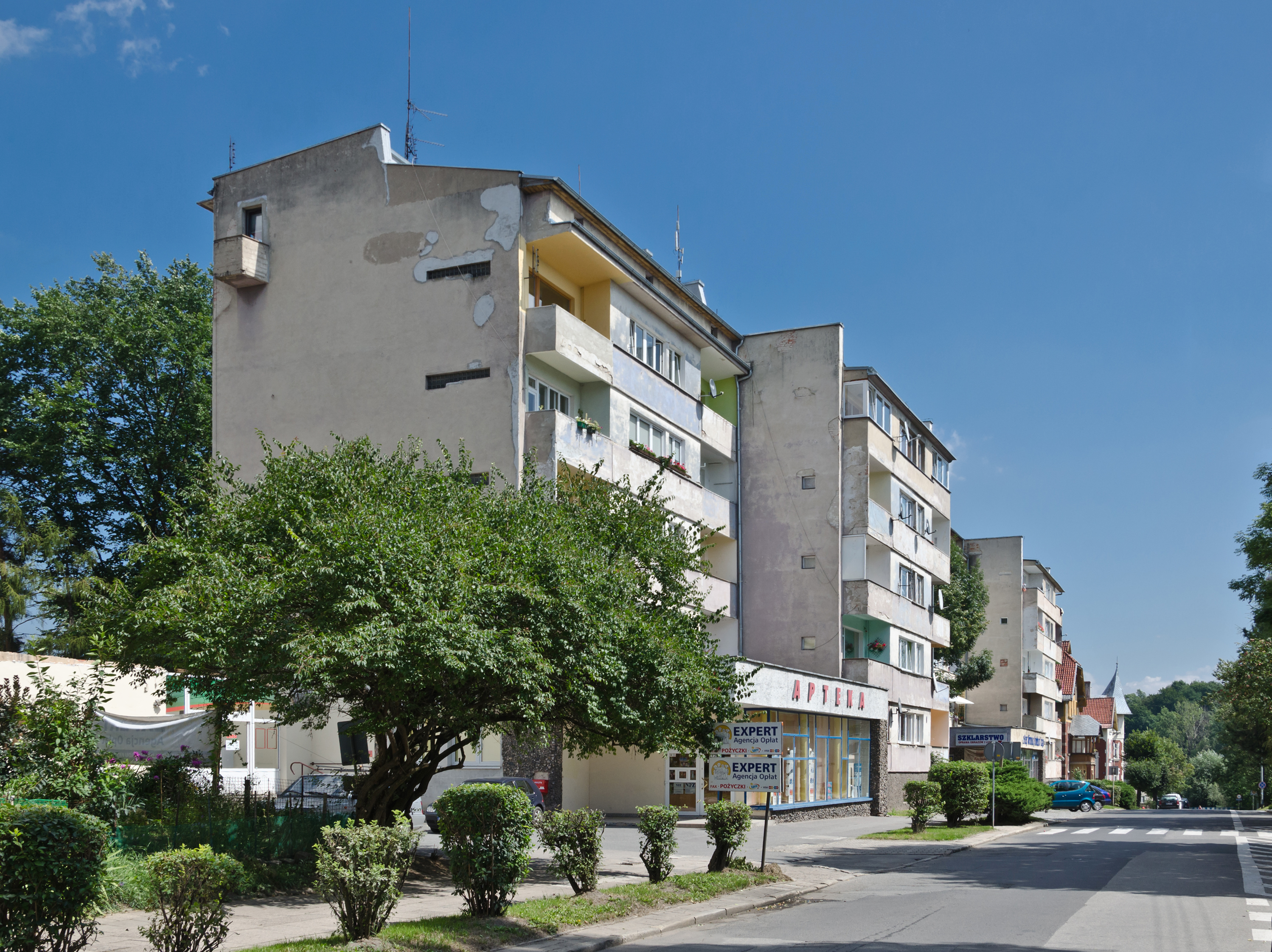 Morcinka Street in Kłodzko